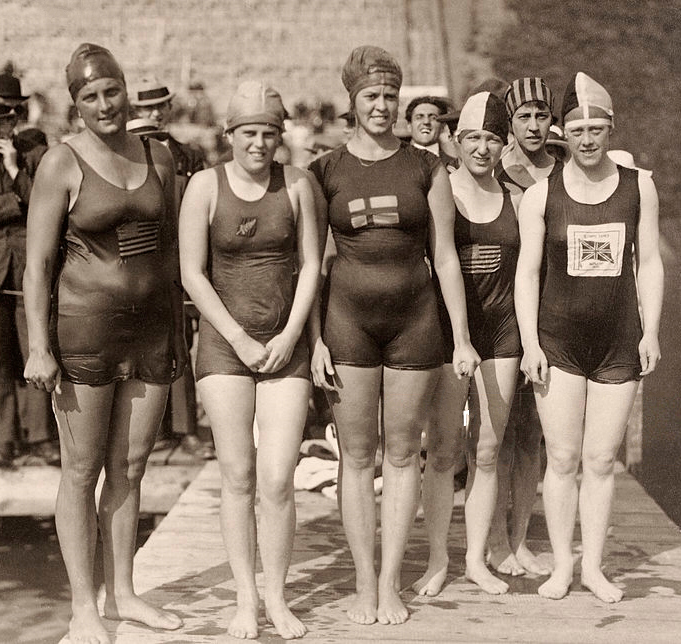 The finalists in the women's 100 metre freestyle swimming event at the Olympic Games in Antwerp, circa August 1920. Left to right: Ethedla Bleibtrey of the USA, gold; Violet Walrond of New Zealand, fifth; Jane Gylling of Sweden, sixth; Irene Guest of the USA, silver; Frances Schroth, USA, bronze; and Constance Jeans of Great Britain, fourth.